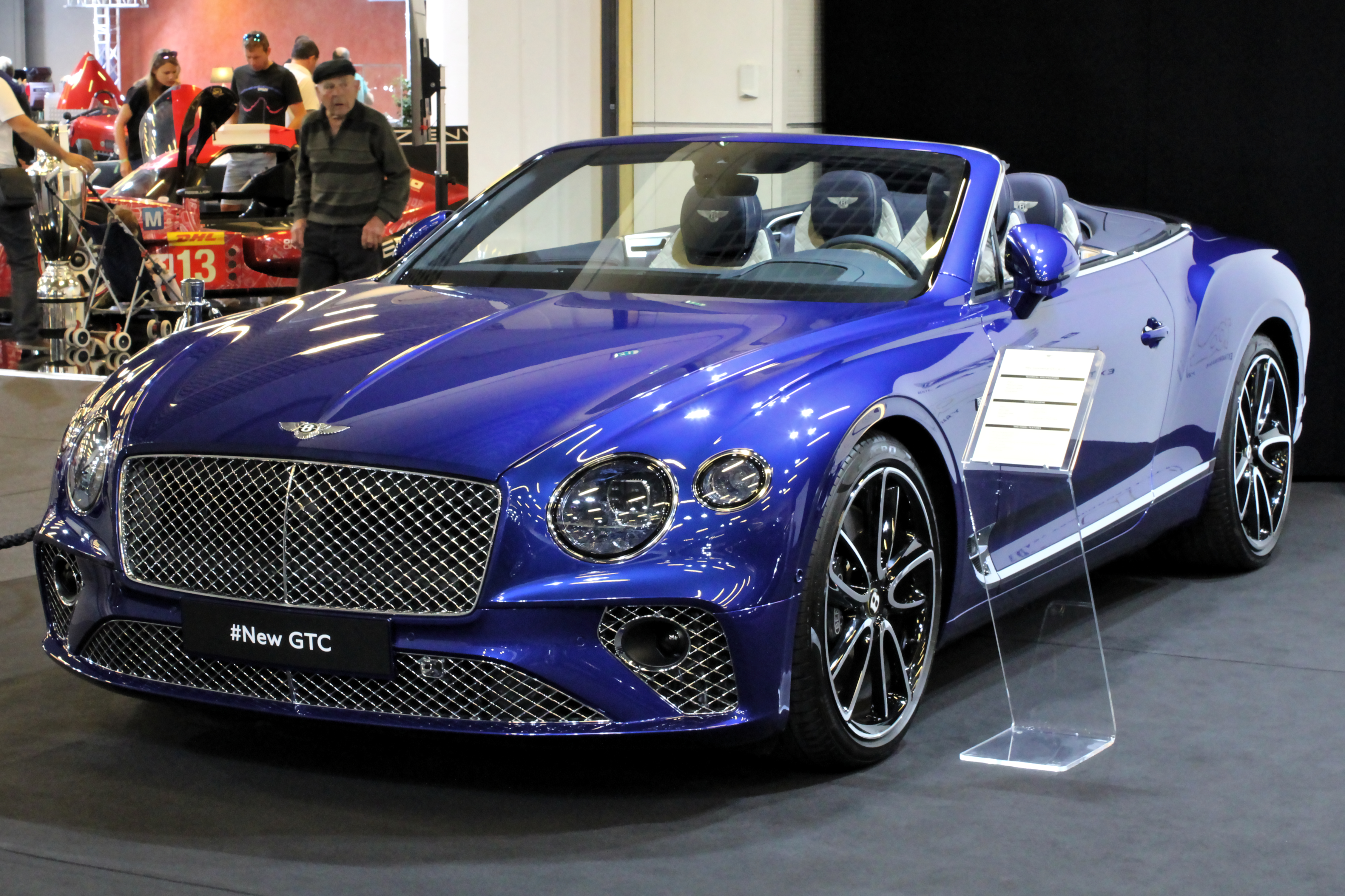 Bentley Continental GTC at Top Marques 2019